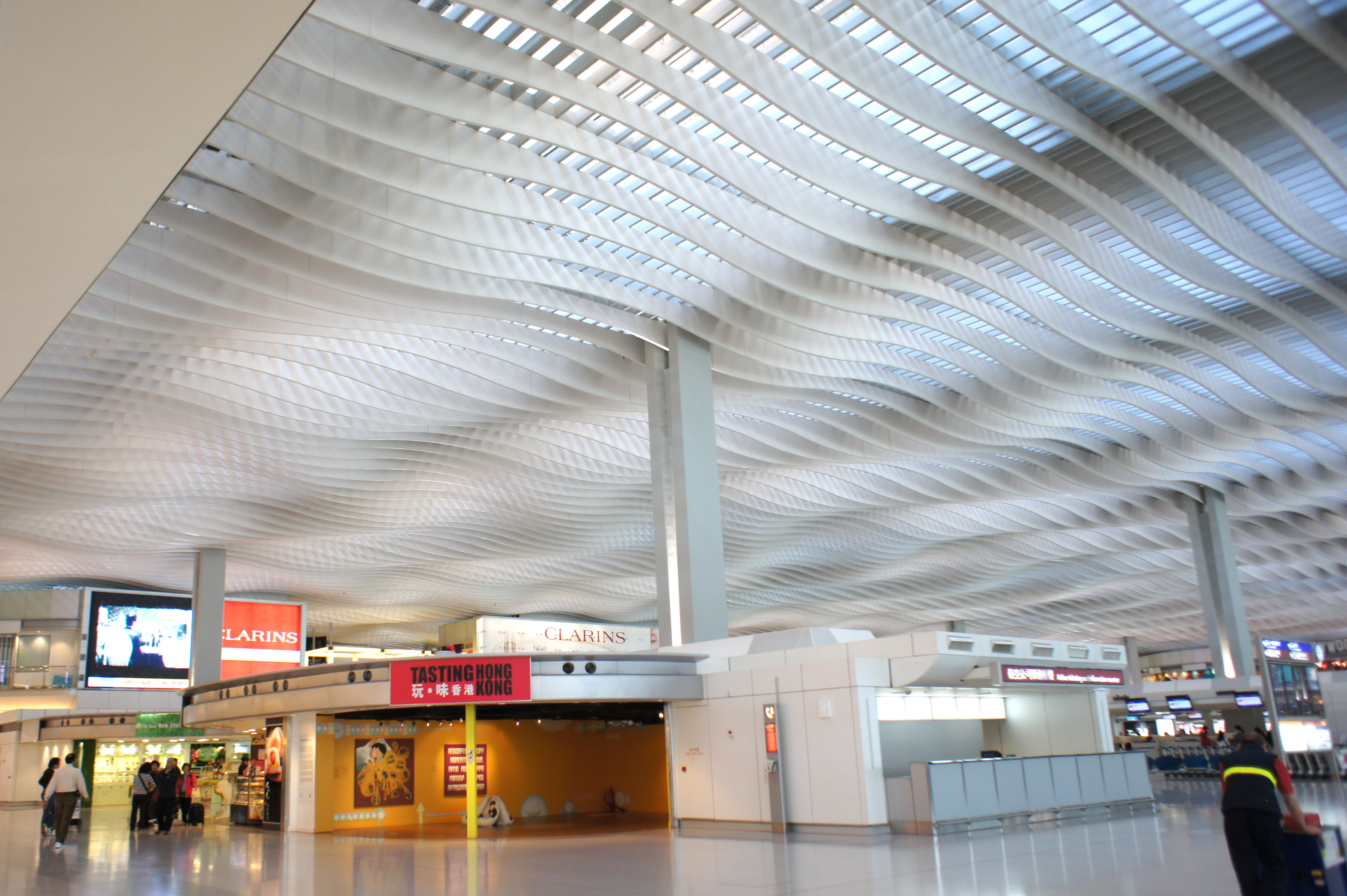 SkyPlaza at the Hong Kong International Airport Terminal 2 showing the ceiling structure